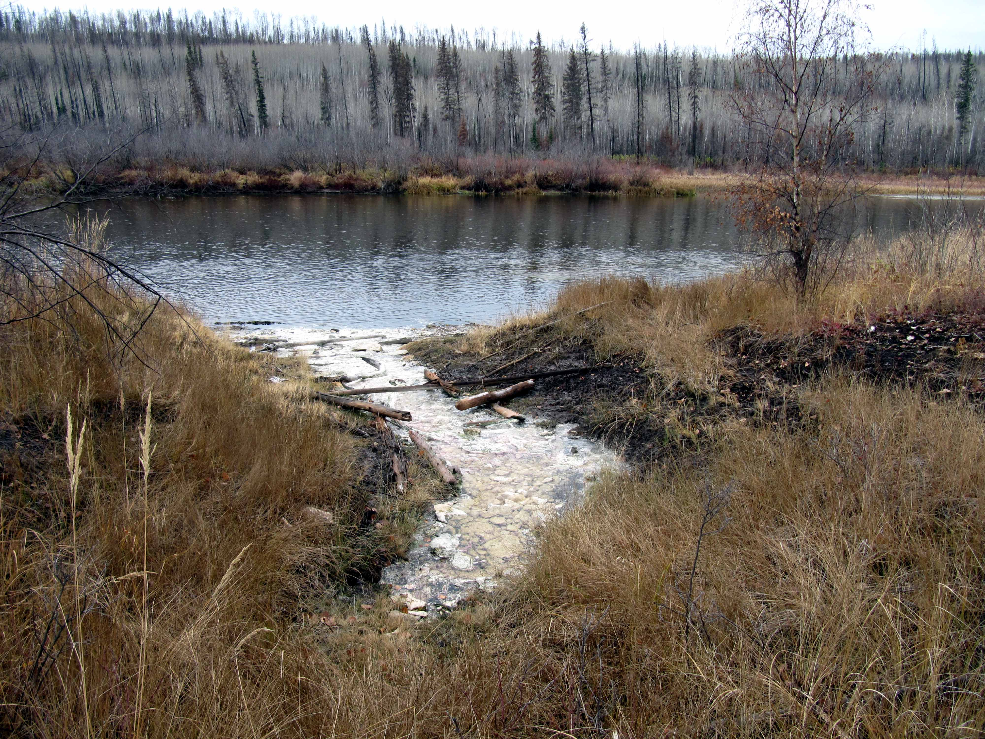 Salt spring on the Clearwater River, northeast Alberta.